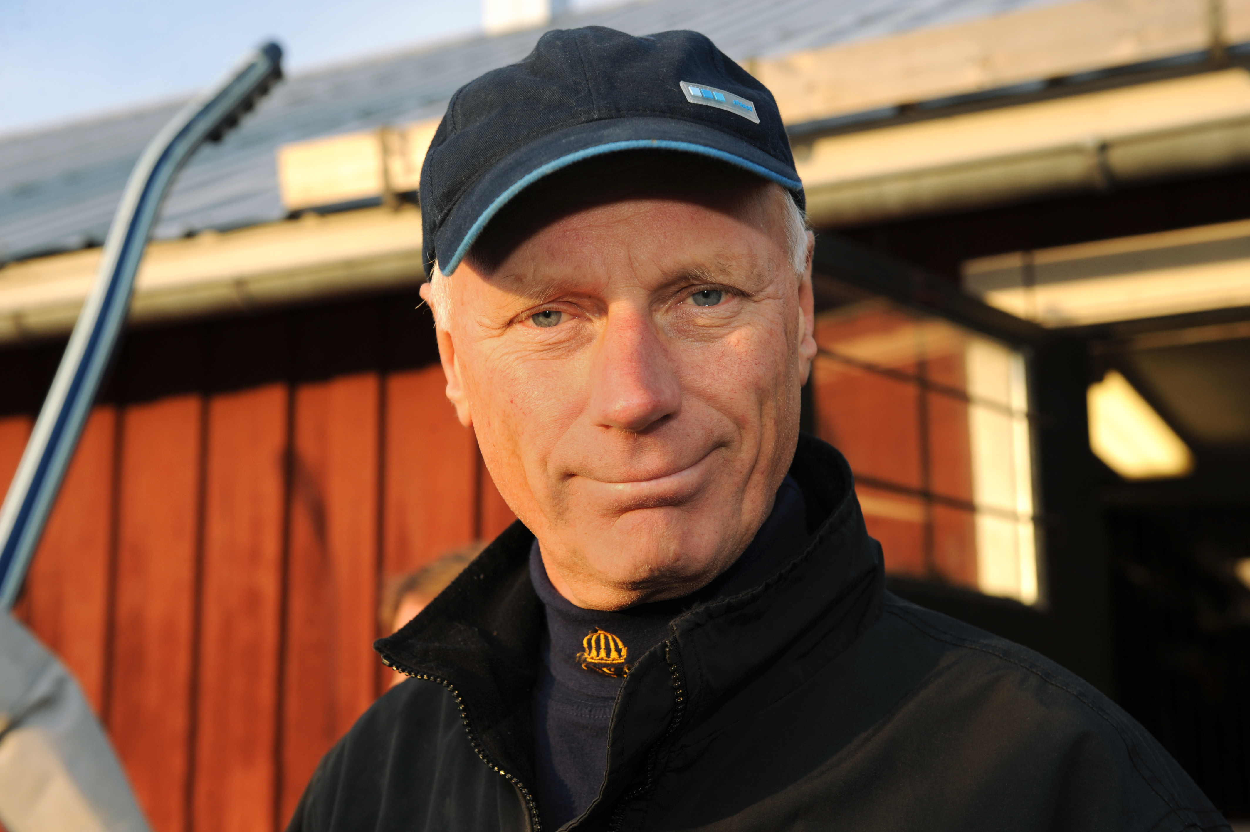 Swedish harness driver Stig H. Johansson.